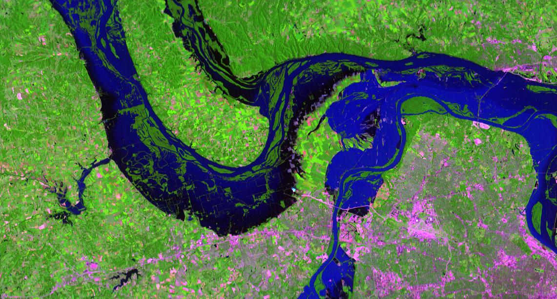 Satellite photo of northern St. Louis metro area in the Flood of 1993